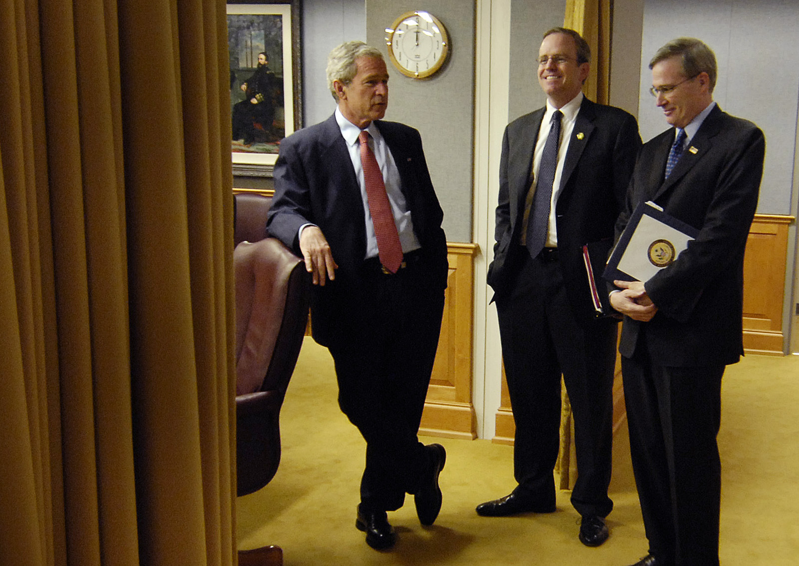 President George W. Bush talks with National Security Advisor, Steve Hadley, and Counselor to the President of the United States, Dan Bartlett, after a meeting with senior defense leaders at the Pentagon, May 10, 2007.